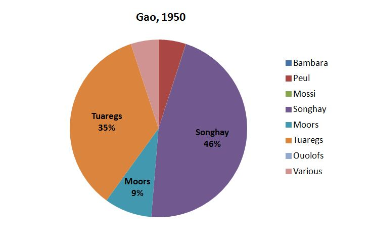 Figures from